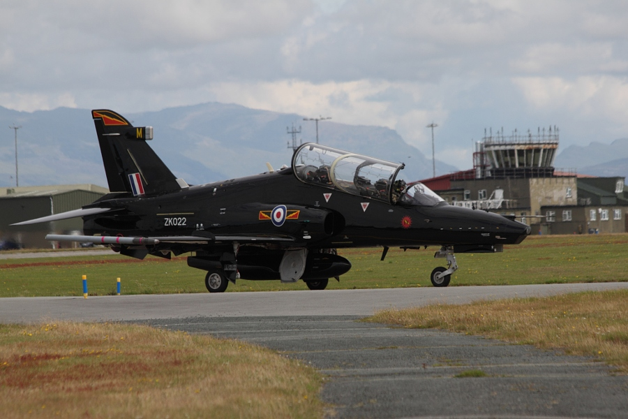 No. 4 Squadron Royal Air Force BAE Hawk T1 No. ZK022 at RAF Valley